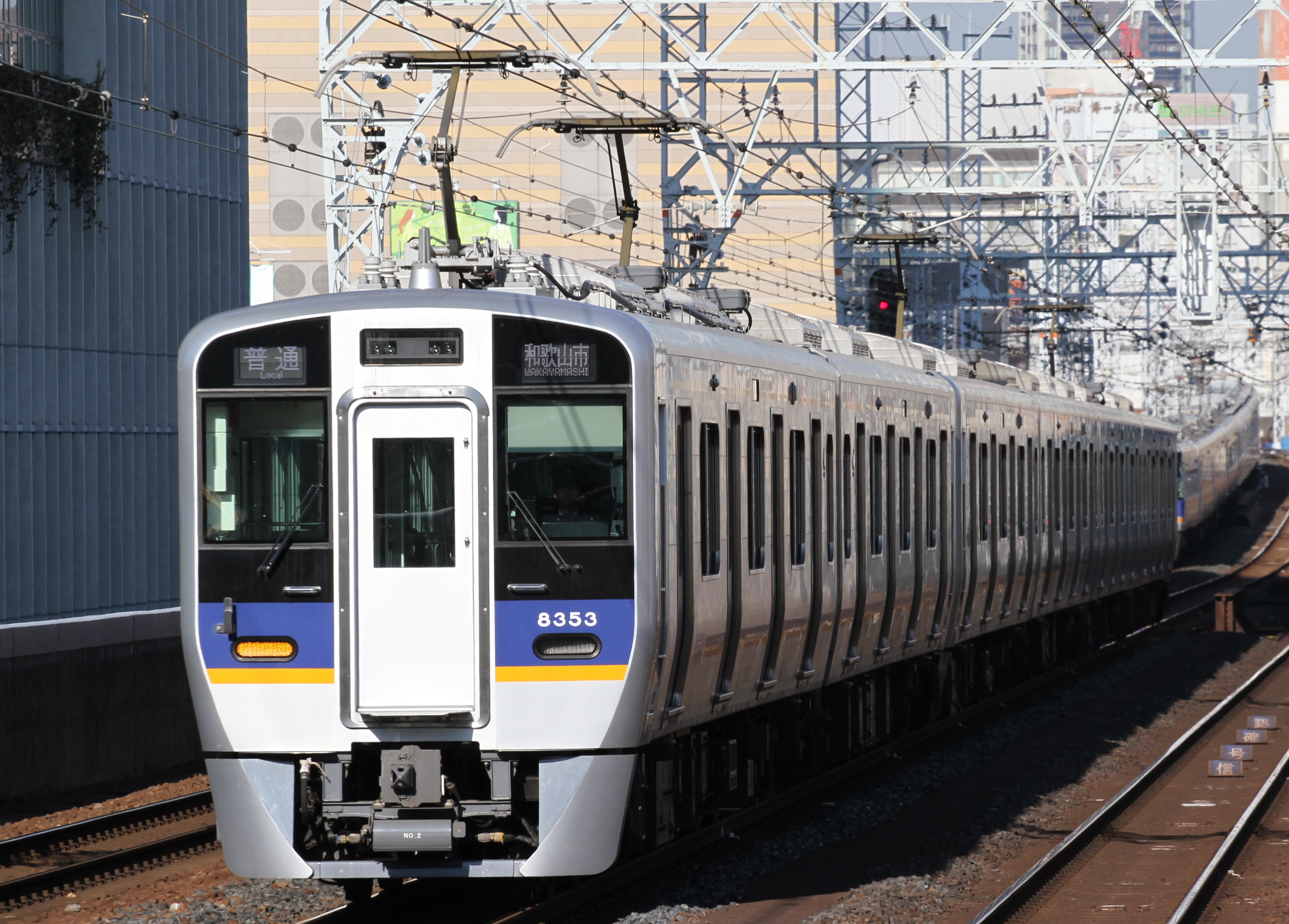 Nankai 8300 series 2-car EMU set 8703 leading a 6-car formation